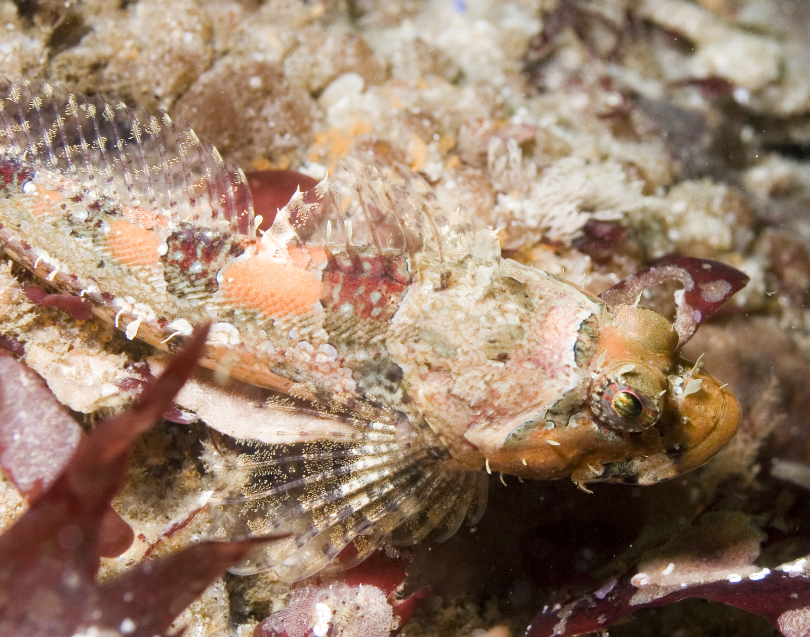 Coralline sculpin (Artedius corallinus) resting on its pectoral fins